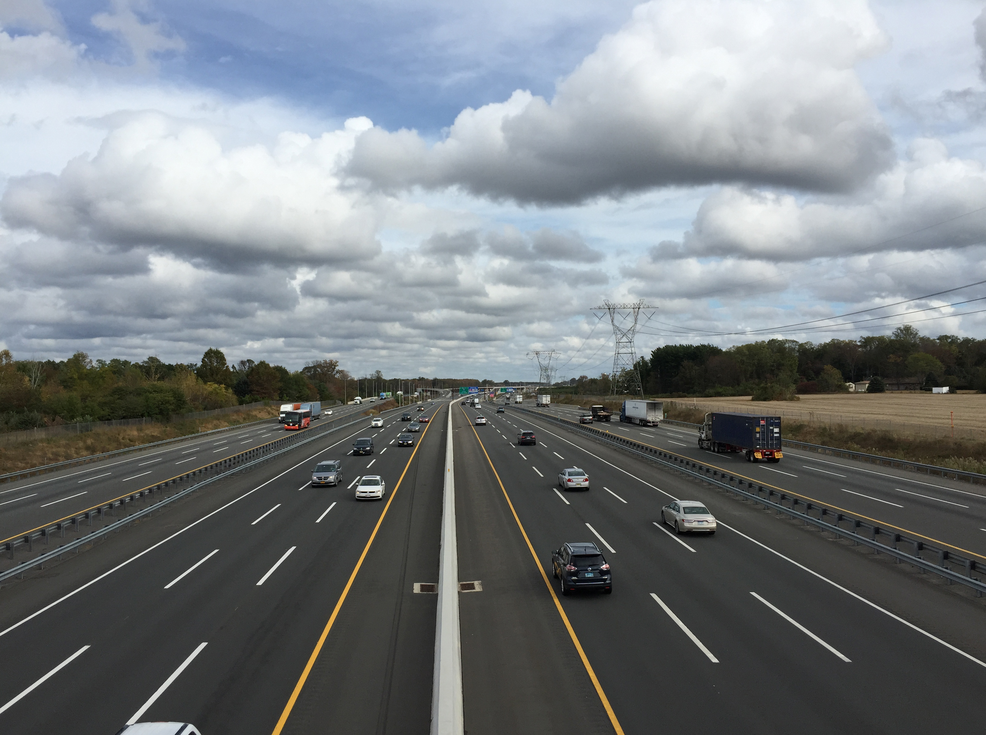 View north along Interstate 95 (New Jersey Turnpike) from the South Broad Street (Mercer County Route 672) overpass in Hamilton Township, Mercer County, New Jersey